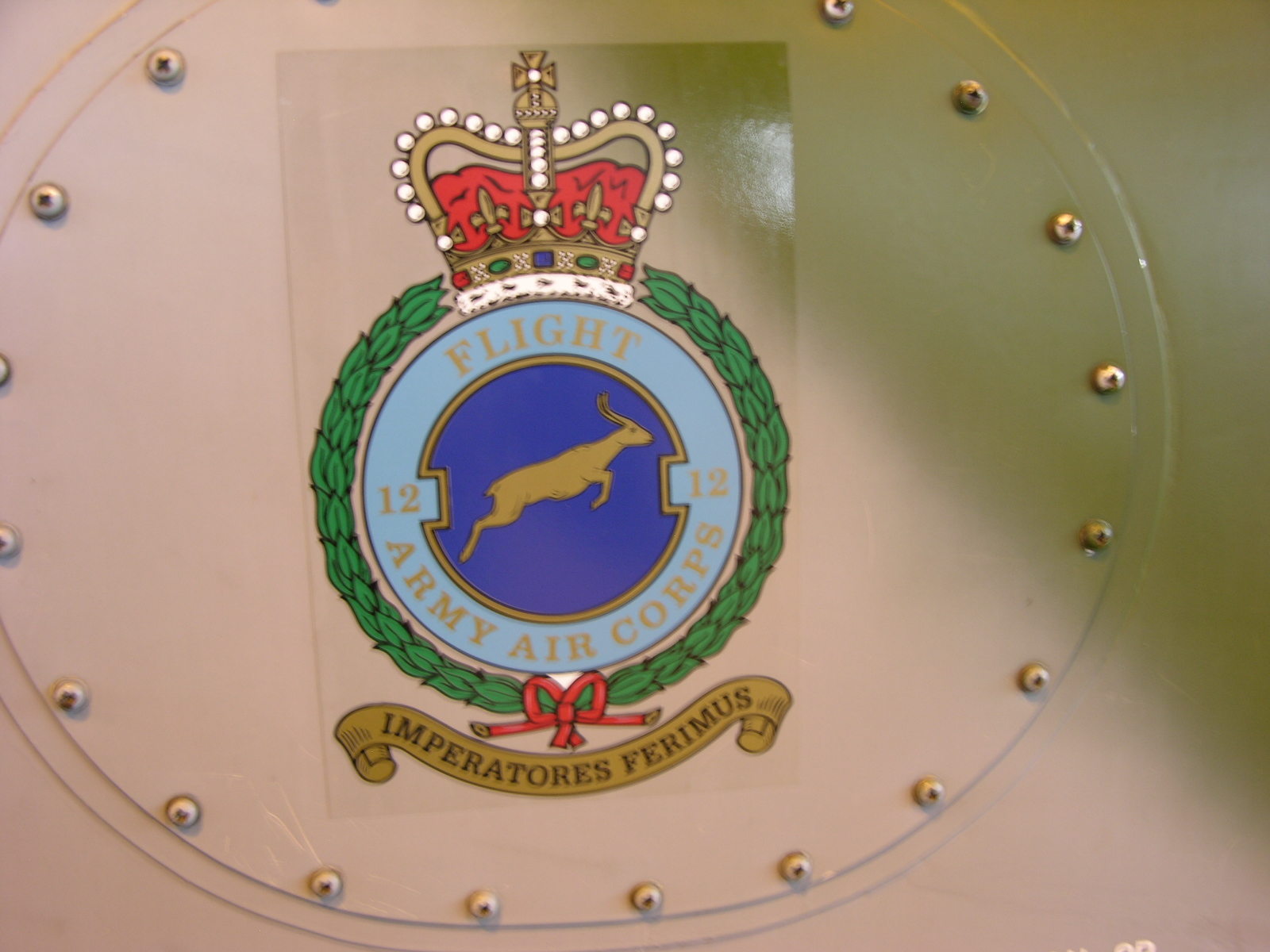 The army had retired four Gazelles, including this one, to Shawbury on the Tuesday. I visited on the Thursday. Of the four aircraft I hadn't seen three of them before so I was a VERY happy bunny.